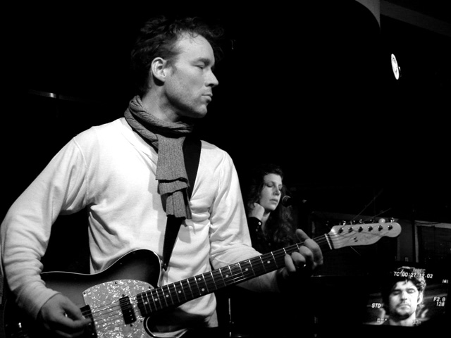 Low playing in downtown Duluth, Minnesota. Copied from English Wikipedia.